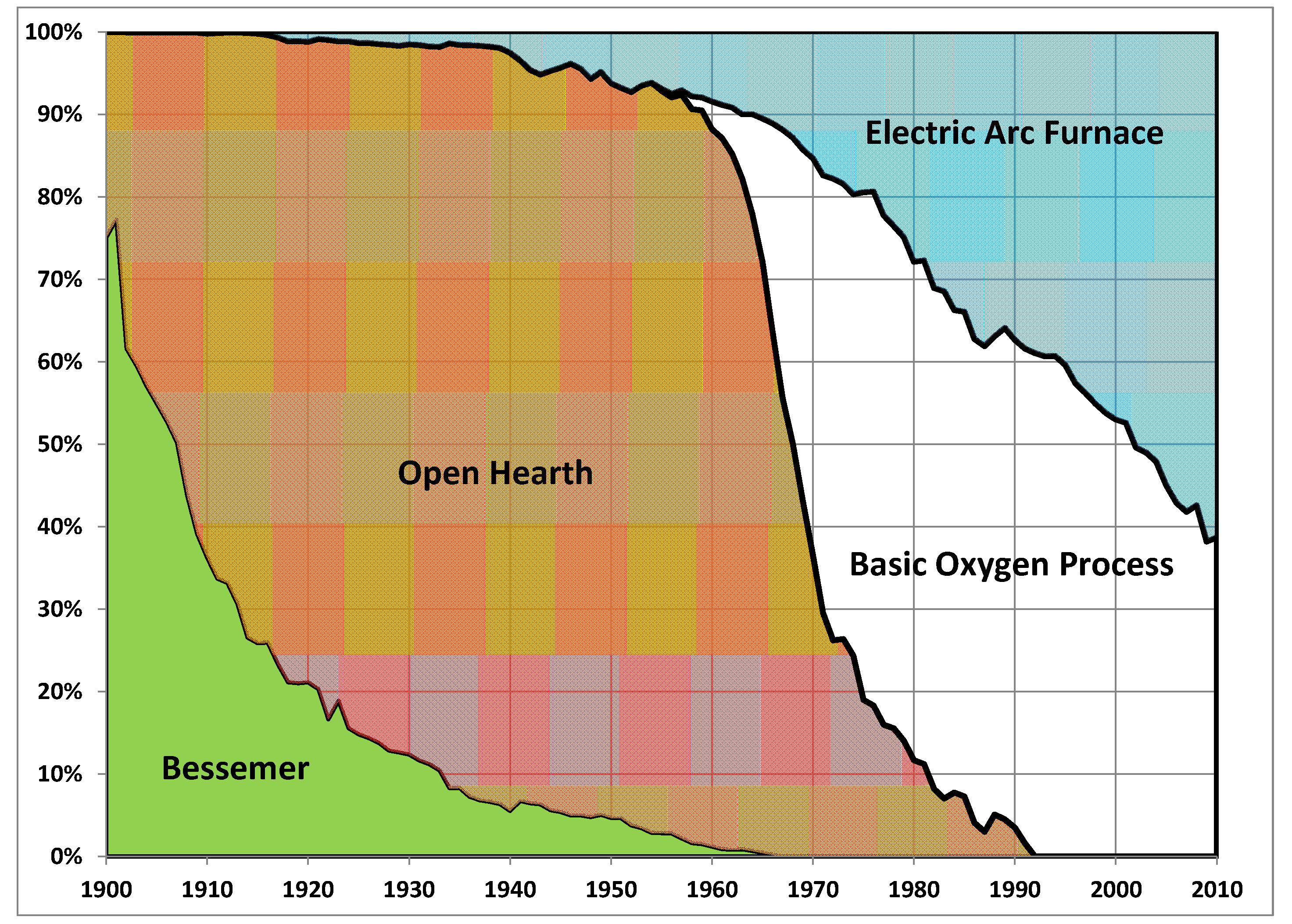 Percentages of US steelmaking processes, 1950-2012. Data from USGS and US Bureau of Mines Minerals Yearbooks